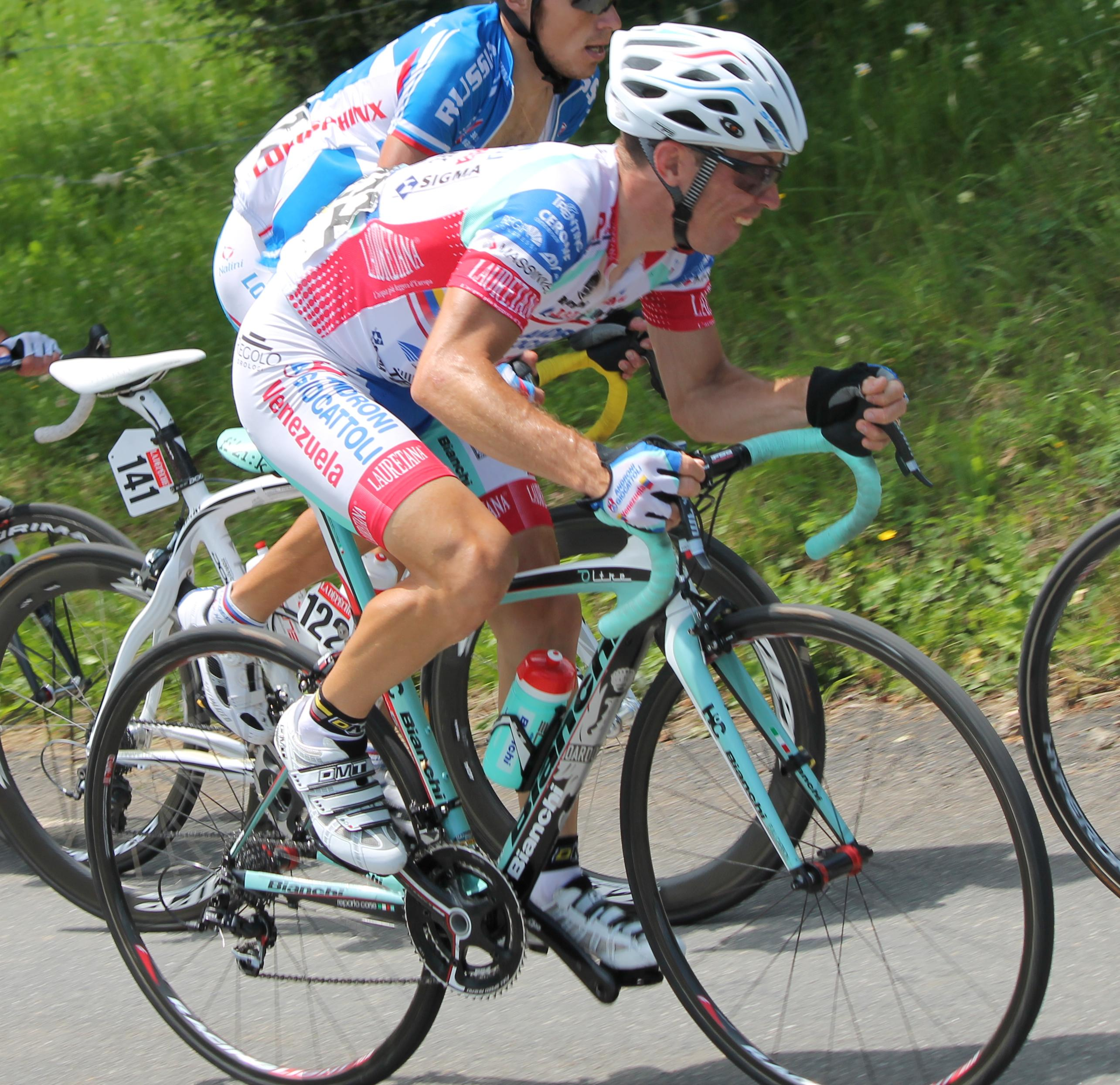 Emanuele Sella climbing the Col de Spandelles, during stage 3 of 2012 Route du Sud.